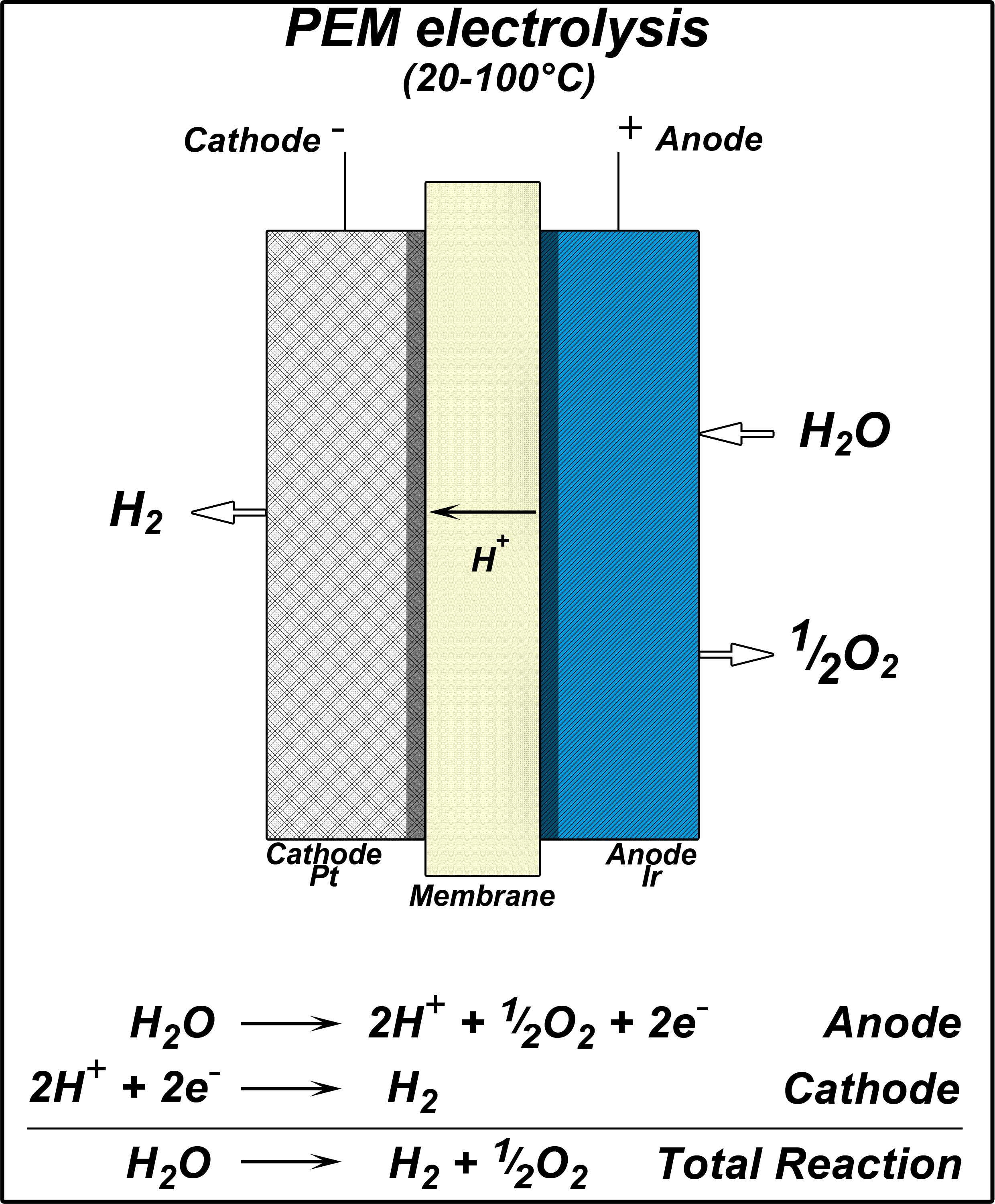 Schematic of the basic operating principle of a polymer electrolyte membrane electrolysis cell.